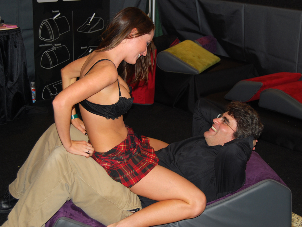 AEE2008_Nikon_Day1 305. Exotic dancer demonstrating a lap dance at a public convention. Modified in Photoshop. Original can be found at the URL below.